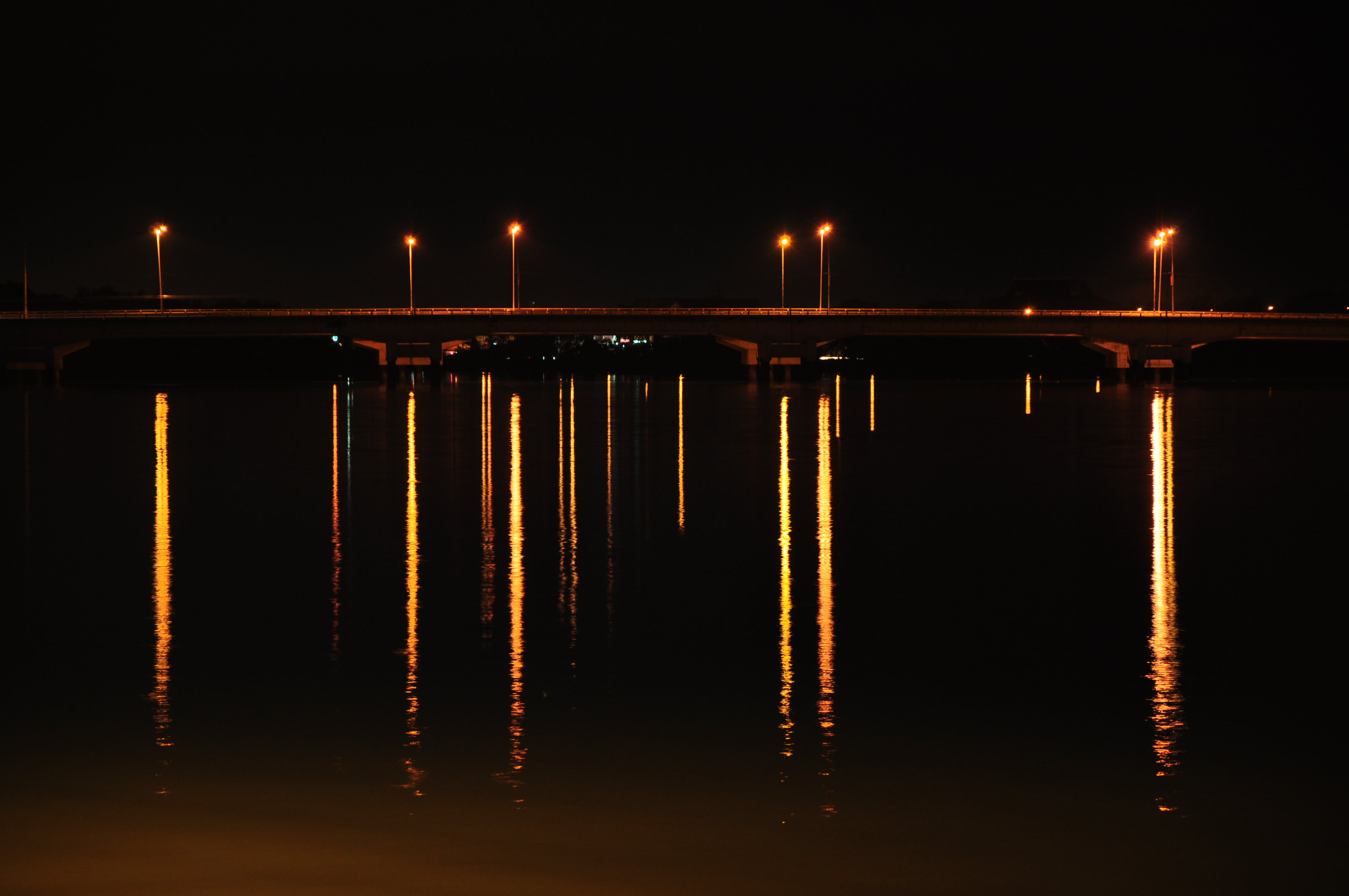 Kuala Selangor bridge at night